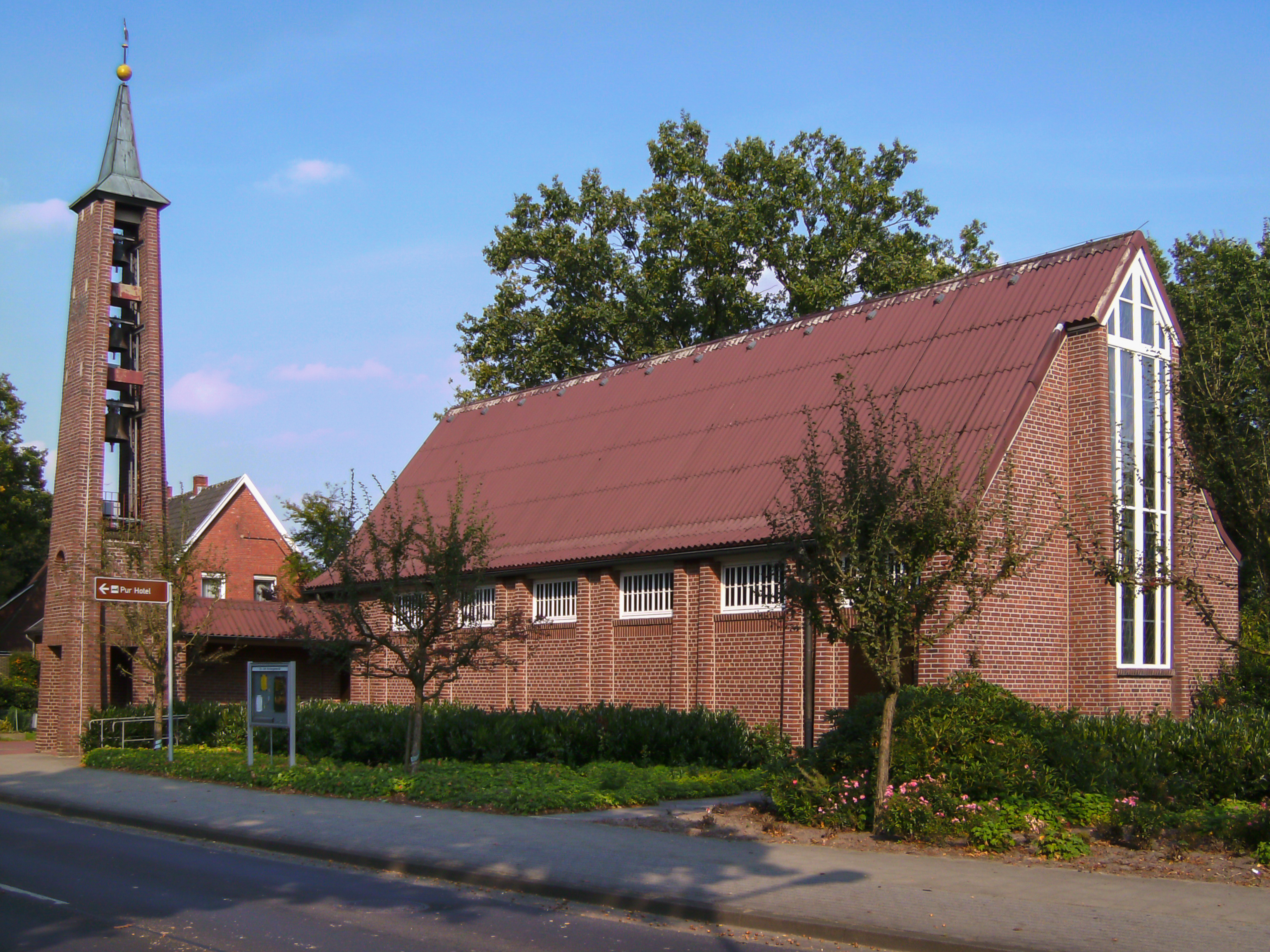 The Evangelical Lutheran Peace Church in Emlichheim, Lower Saxony, Germany, is owned and used by a congregation within Evangelical Lutheran State Church of Hanover.